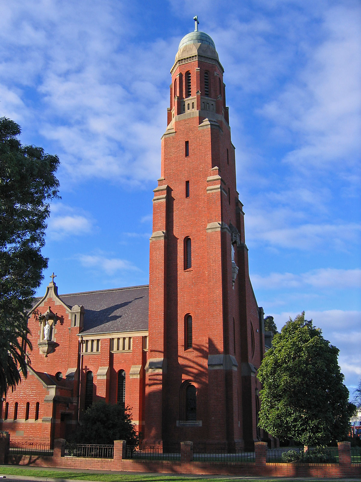 St Mary's Roman Catholic Church, Bairnsdale, Victoria, Australia